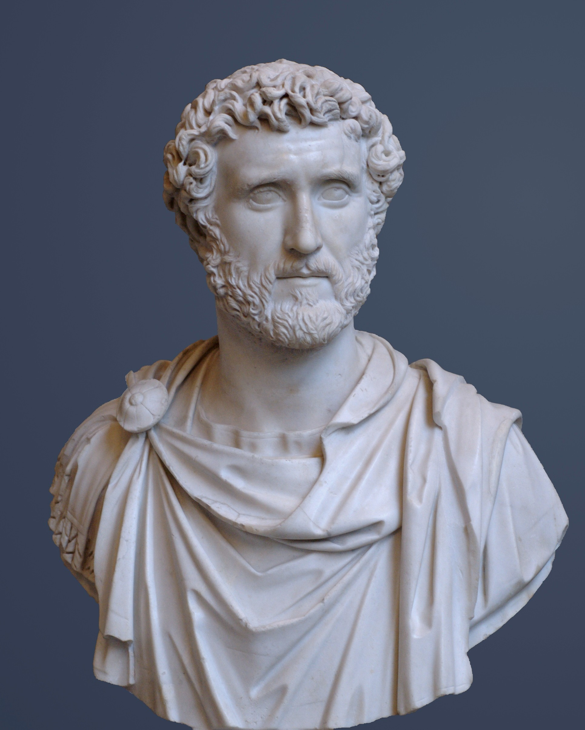 Bust of Antoninus Pius (reign 138–161 CE), ca. 150.